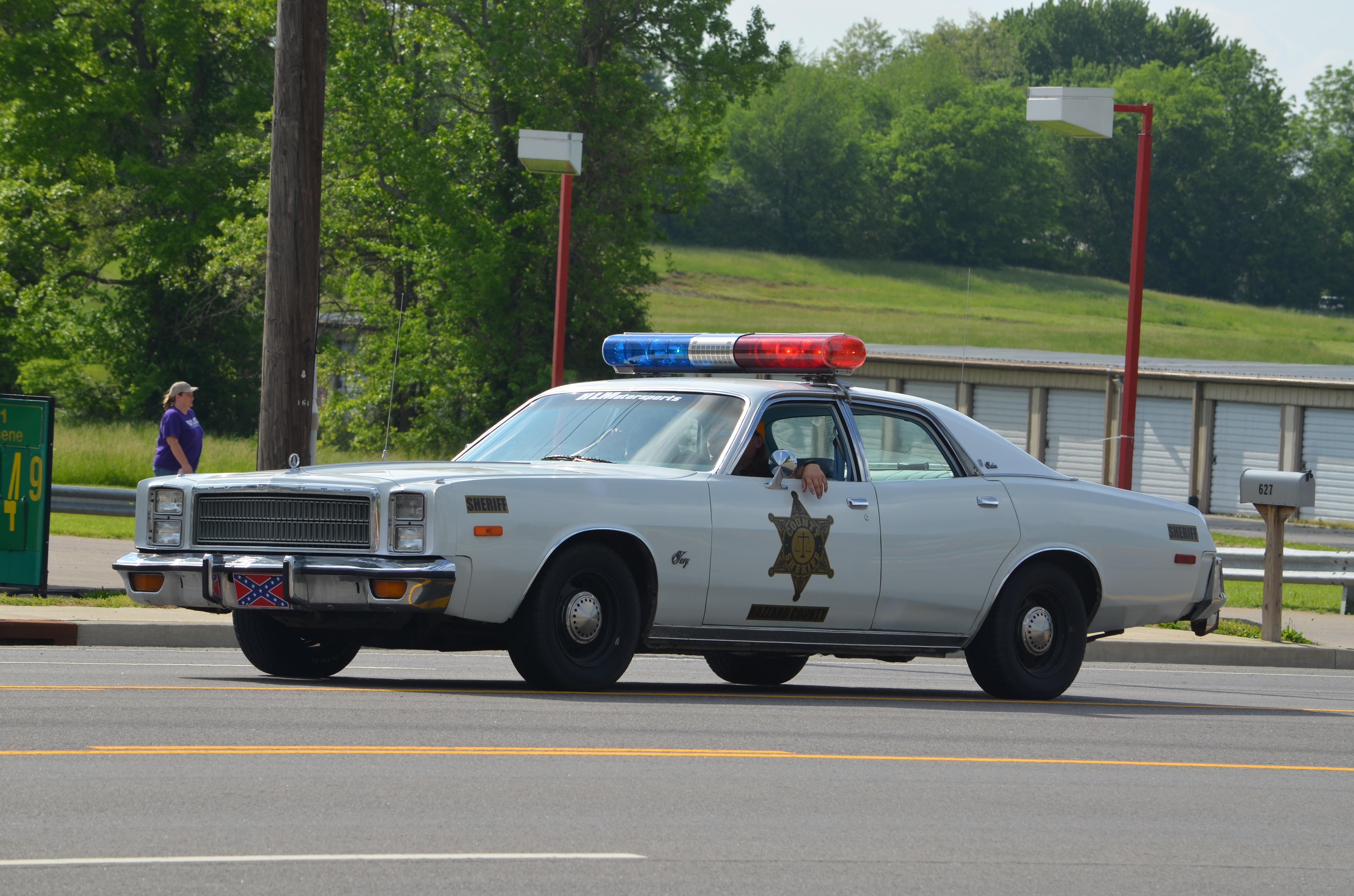 Dukes of Hazzard Sheriff Car